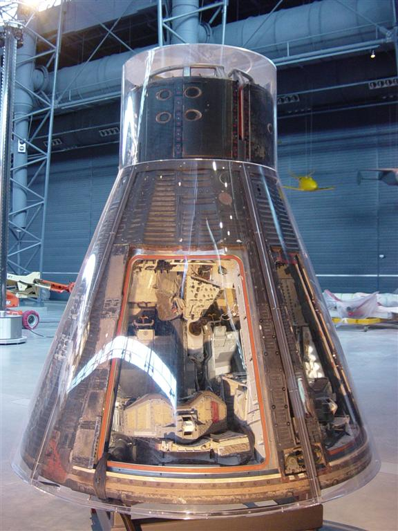 Gemini 7 spacecraft on display at the Steven F. Udvar-Hazy Center in Chantilly, Virginia.